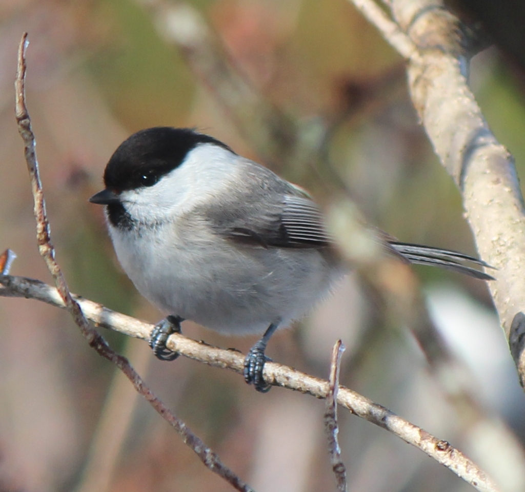 Willow tit, Poecile montanus restrictus (Hellmayr, 1900), in Yōrō Mountains, Gifu pref., Japan.